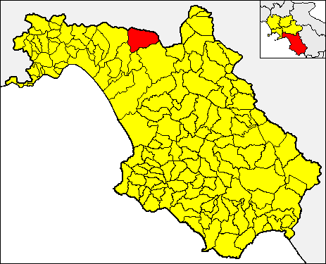 Locator map of the municipality of Acerno (red) within the Province of Salerno